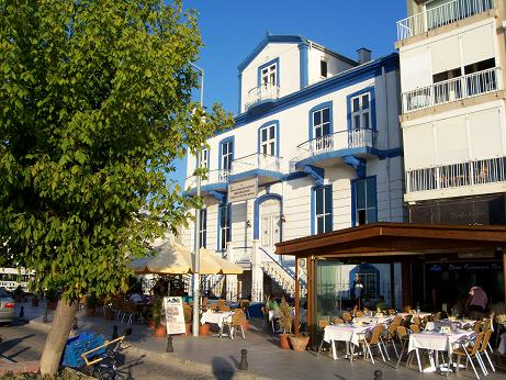 Canakkale Stratejik Arastirmalar Merkezi (Canakkale Onsekiz Mart University Centre for Strategic Researches, Canakkale, Turkey 2006 Photo by USAK Picturing Centre (UPC) Service (Turkey 2006)